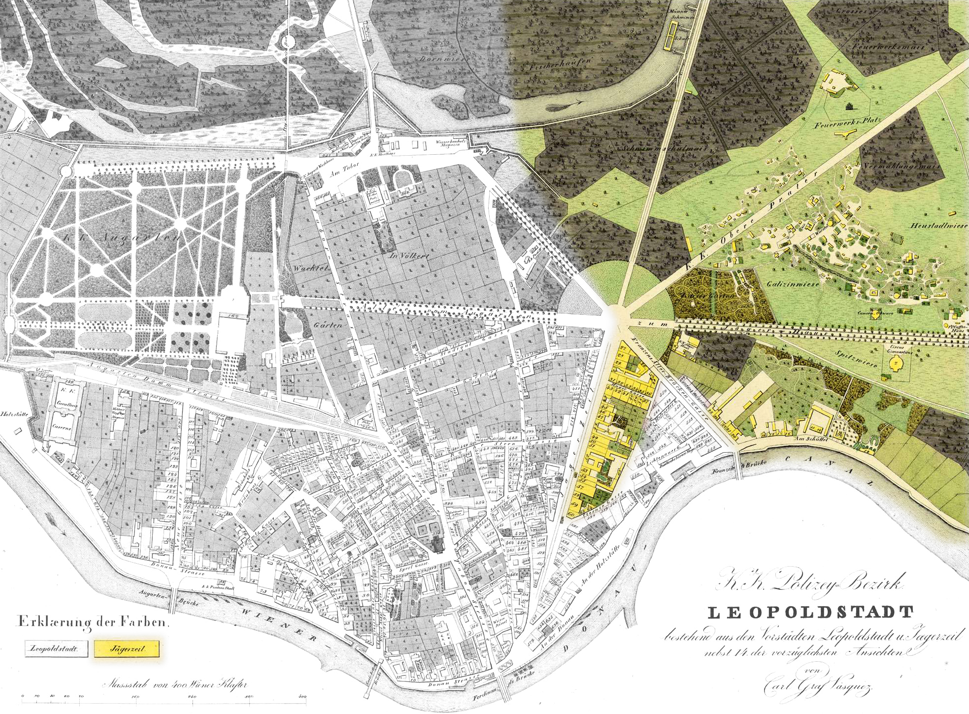 Map of Vienna / Jägerzeile, approx. 1830